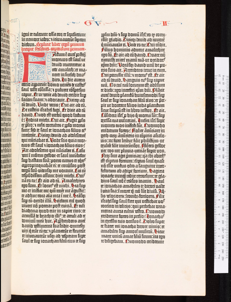 Page from volume 1 of a complete 42-line Bible printed by Johannes Gutenberg and held by the Bodleian Libraries, Oxford. Latin printed text with illuminated letters and annotations. Hubay number 24. Shelfmark of this volume: Arch. B b.10. Scanned by the Polonsky Foundation Digitization Project. For more provenance information